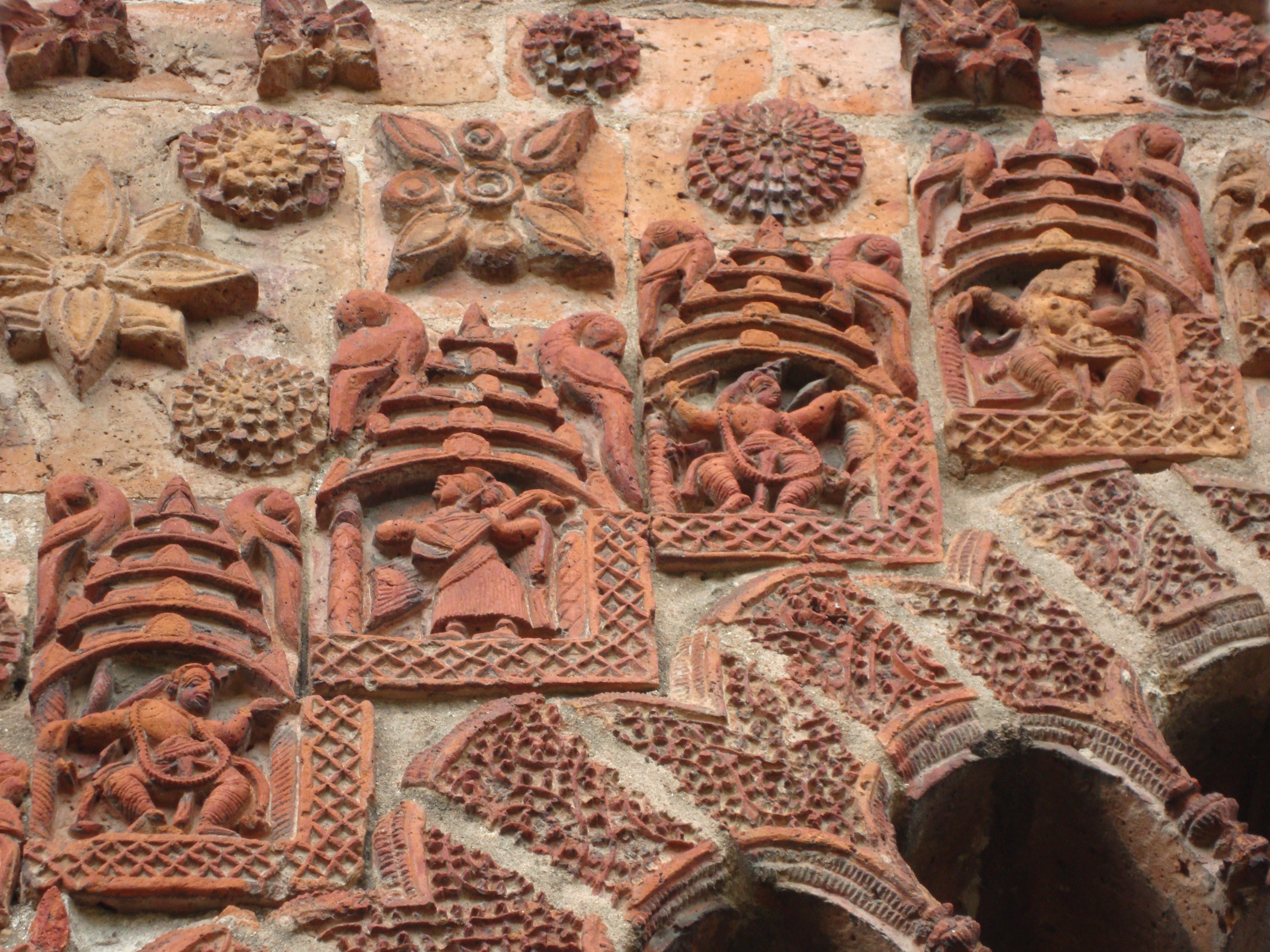 Carving